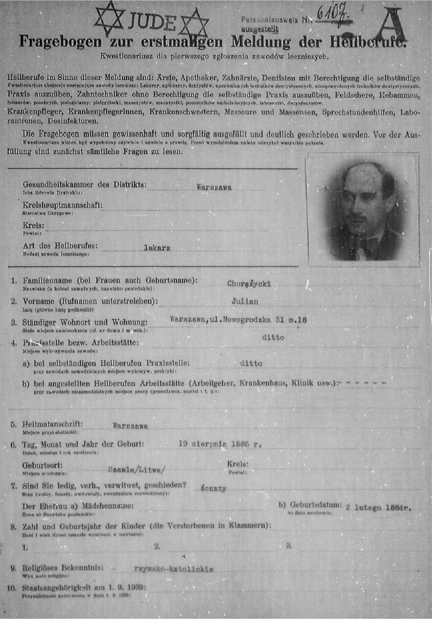 A questionnaire submitted by Julian Chorążycki to Nazi occupation authorities. The original survives in the Central Medical Library of Warsaw (L. 1001, k. 7)